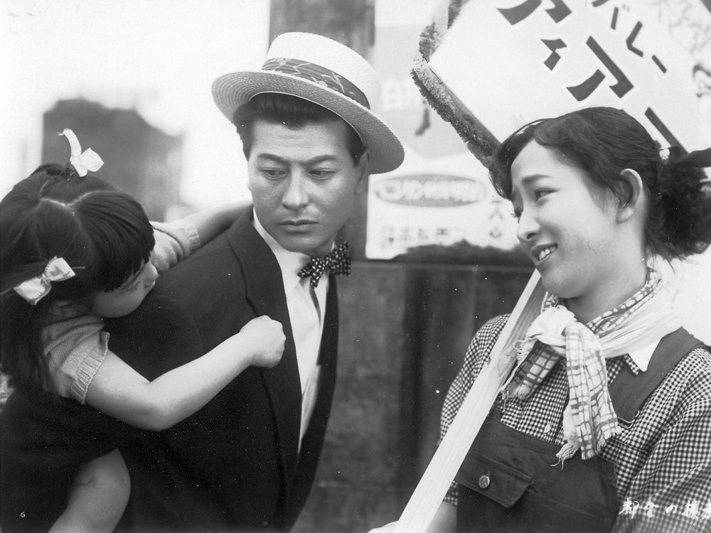 Ryō Ikebe and Ineko Arima in Tokai no yokogao (都会の横顔) directed by Hiroshi Shimizu - 1953